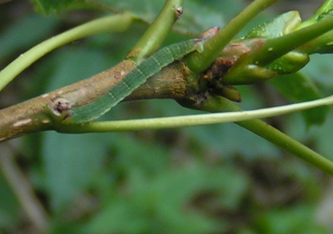 Lomaspilis marginata, larva. Location: Venray/Merselo - Haag - Weverslo (The Netherlands)